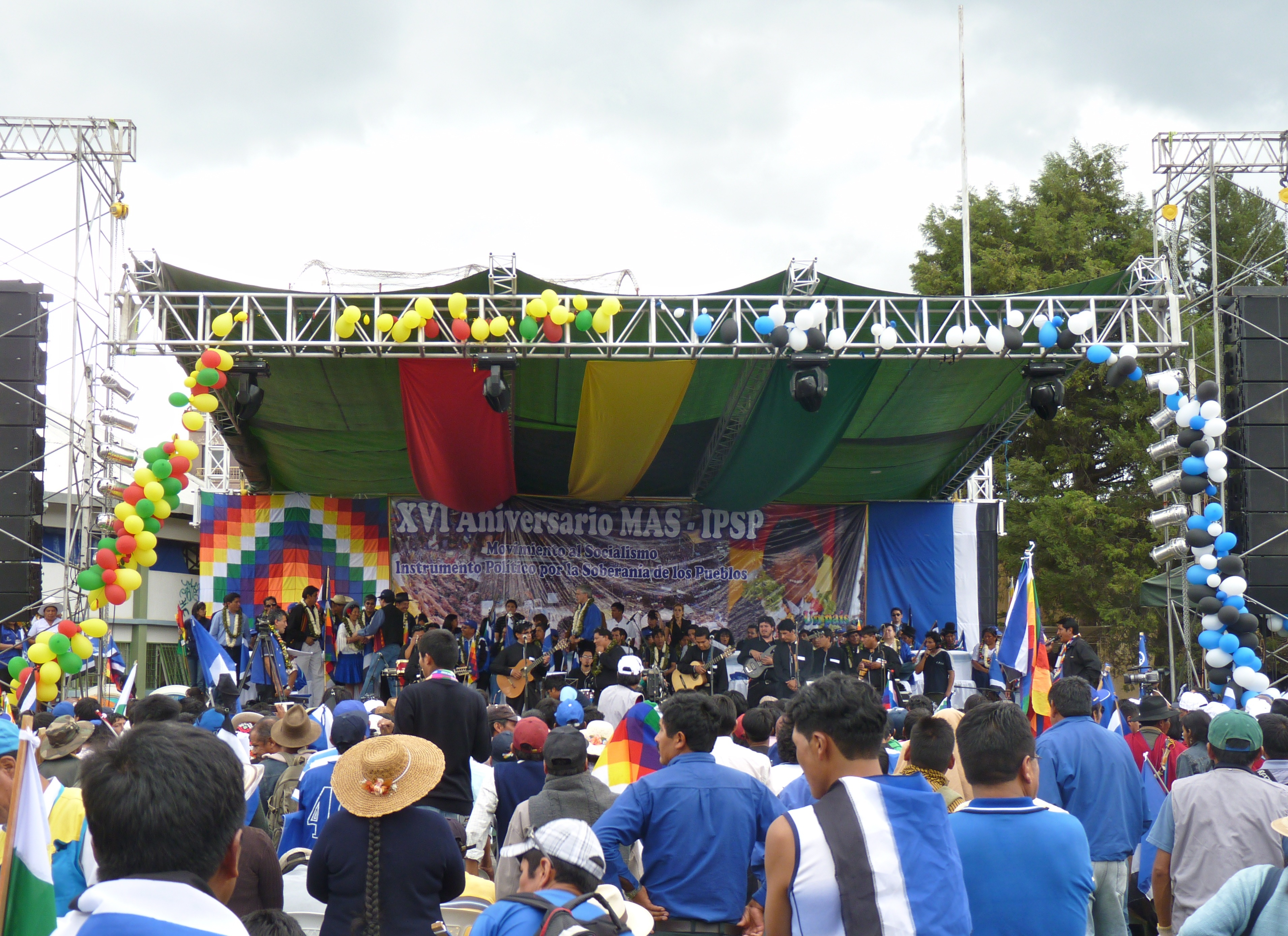 Crowd and stage at 16th anniversary celebration of the Movement for Socialism-Political Instrument of the Sovereignty of the Peoples, the political party which has governed Bolivia since 2006. Among those on stage are Vice President Álvaro García Linera and the folkloric band Tupay.